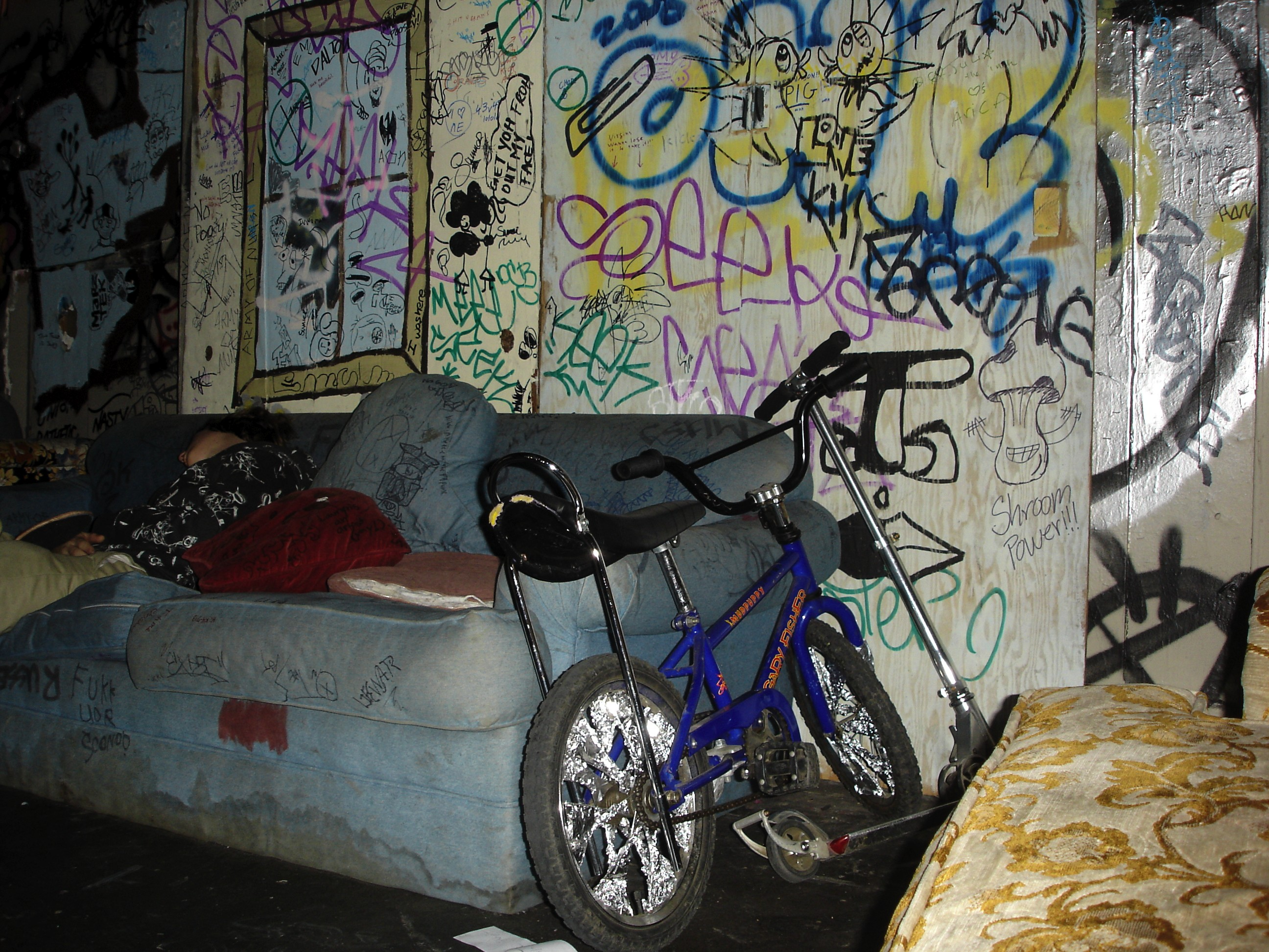 924 Gilman Street, Berkeley, California